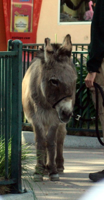 Sicilian Donkey